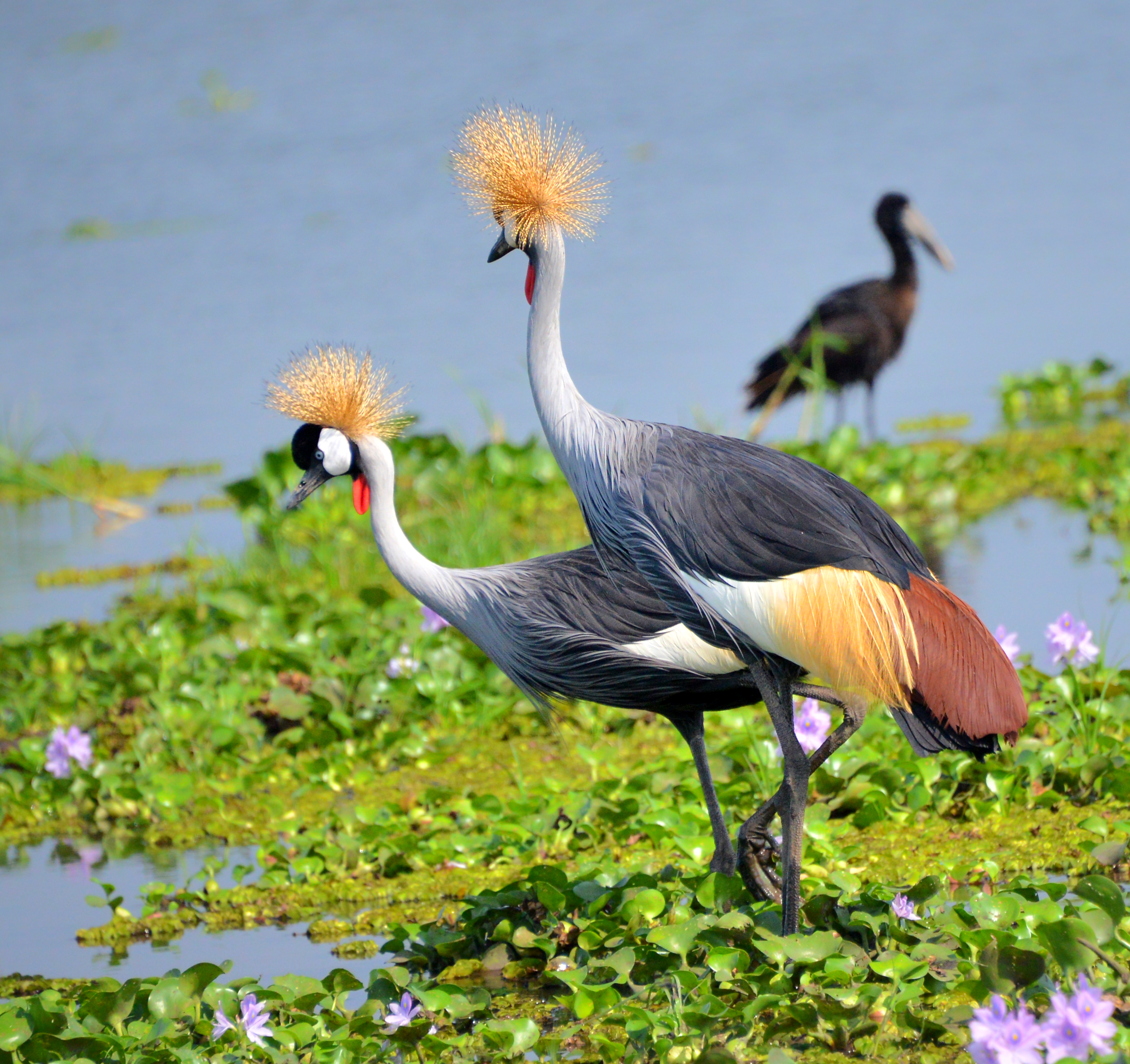 National Bird